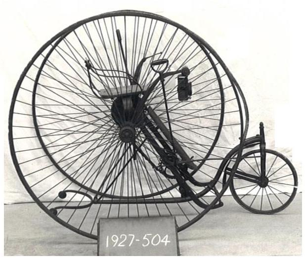 An object from the collections of the Science Museum (London) as copied from their ObjectWiki.